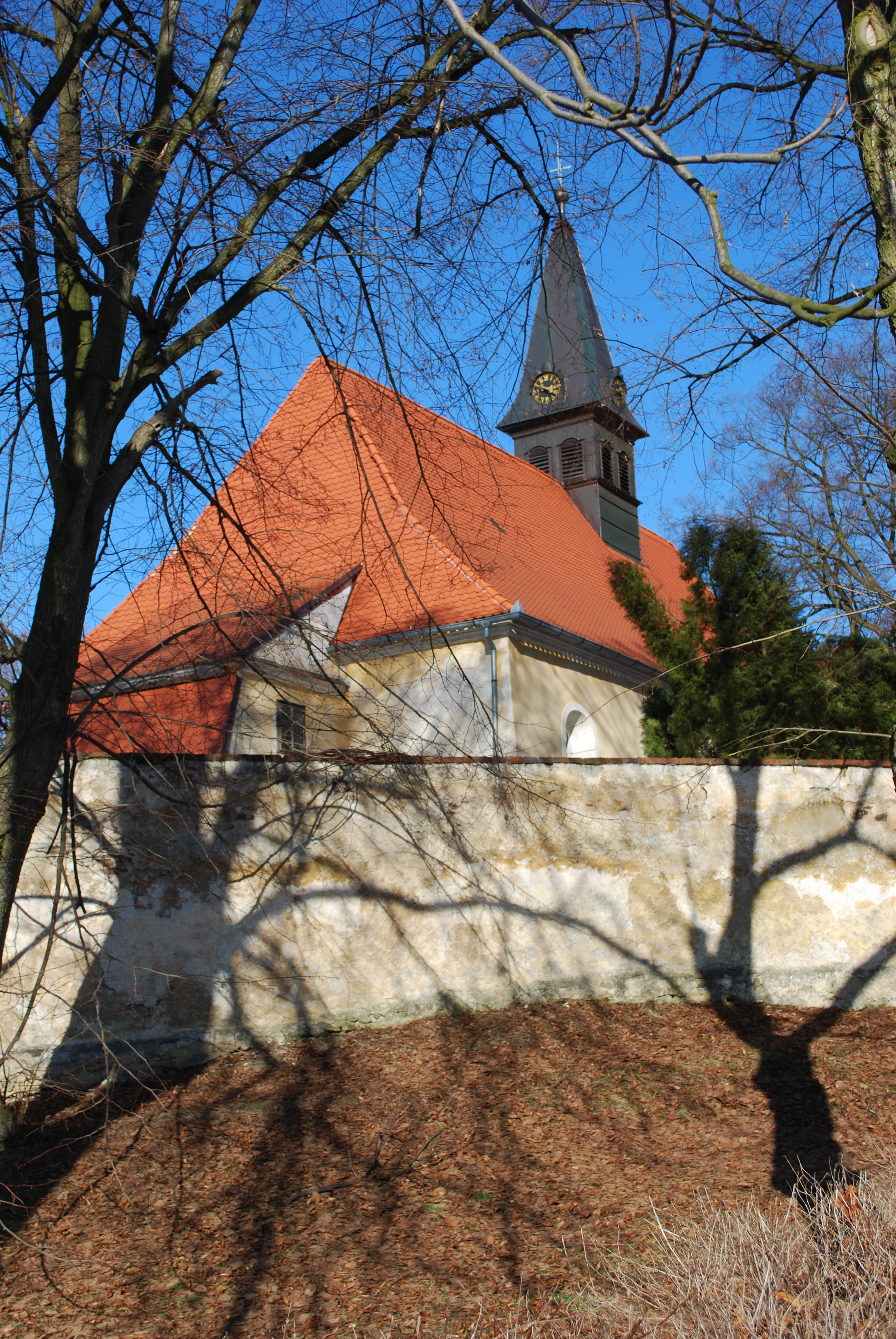 Saint Andrew church in Hlavatce village in n Tábor District, Czech Republic This photograph was taken within the scope of the 'Czech Municipalities Photographs' grant.